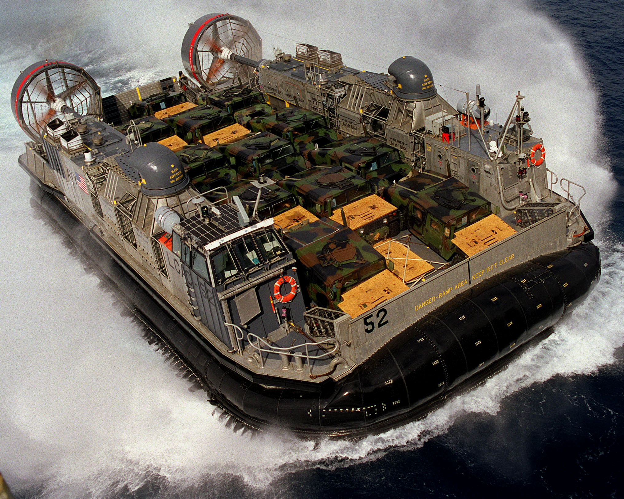 A U.S. Navy Landing Craft Air Cushion, of Assault Craft Unit 5, flies off the coast of Camp Pendleton, Calif., on June 20, 1997, delivering troops and cargo to the USS Peleliu (LHA 5) during Exercise Kernel Blitz 97. Kernel Blitz 97 is a major amphibious exercise taking place in Southern California and waters offshore. More than 12,000 sailors, Marines, soldiers, guardsmen and airmen are involved in the exercise which is designed to test the Navy-Marine Corps team's ability to project combat power ashore.